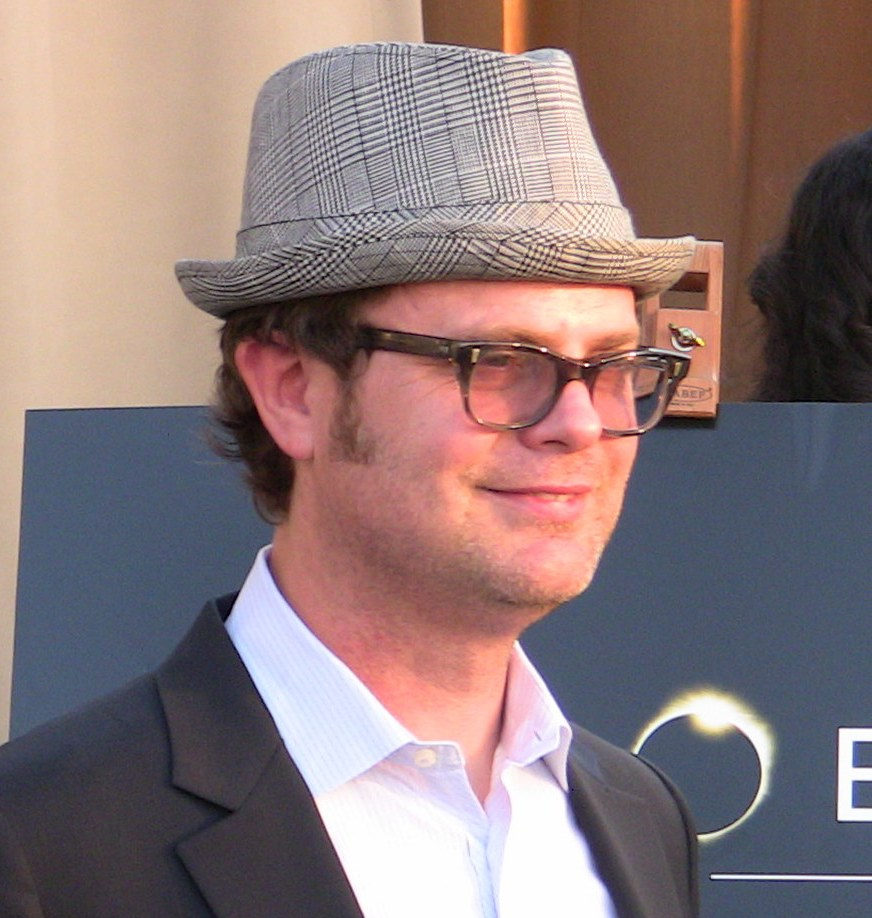 Actor Rainn Wilson at Heroes for Autism event, Hollywood, California.